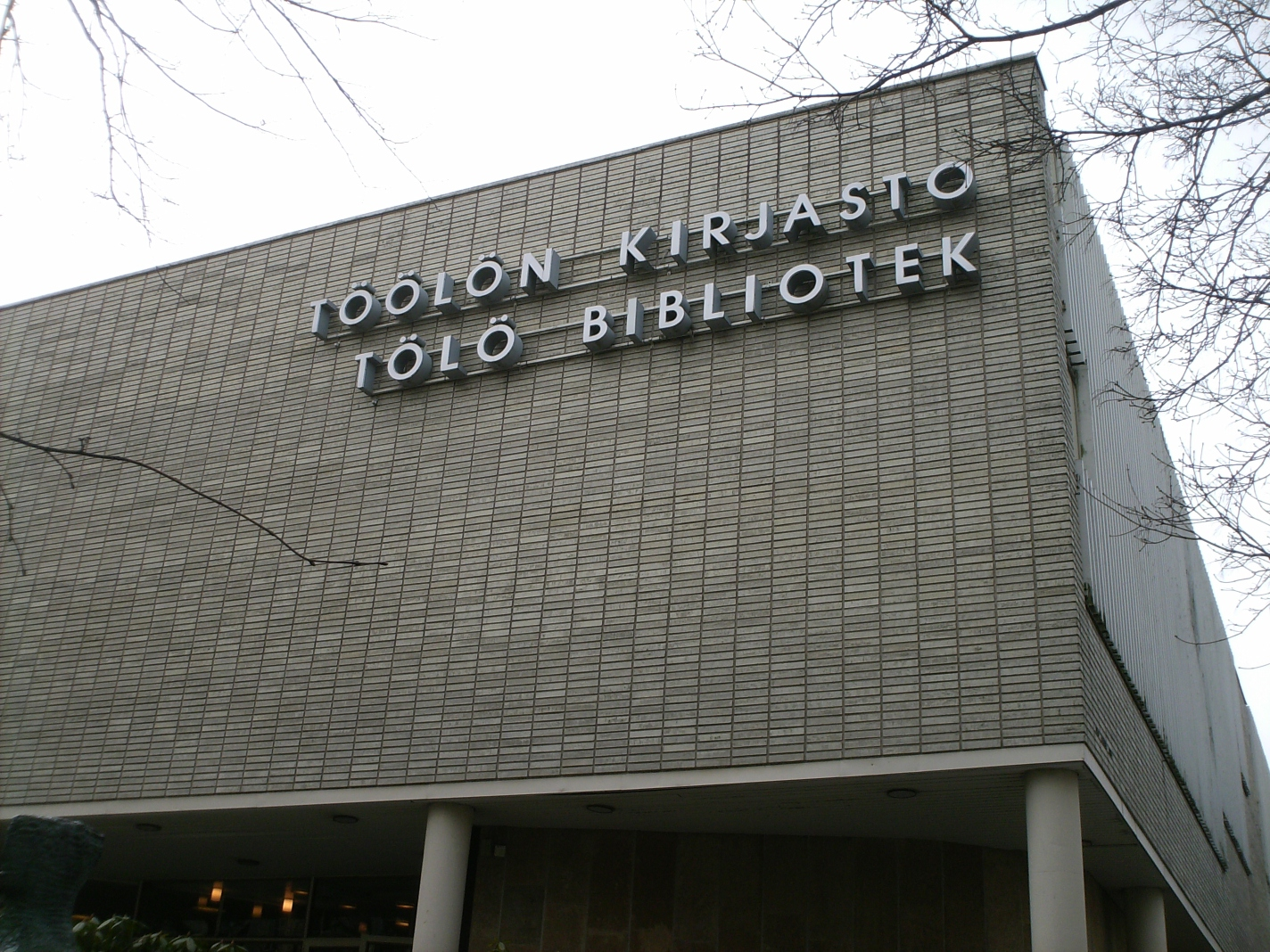 Photograph of the Töölö Library façade.